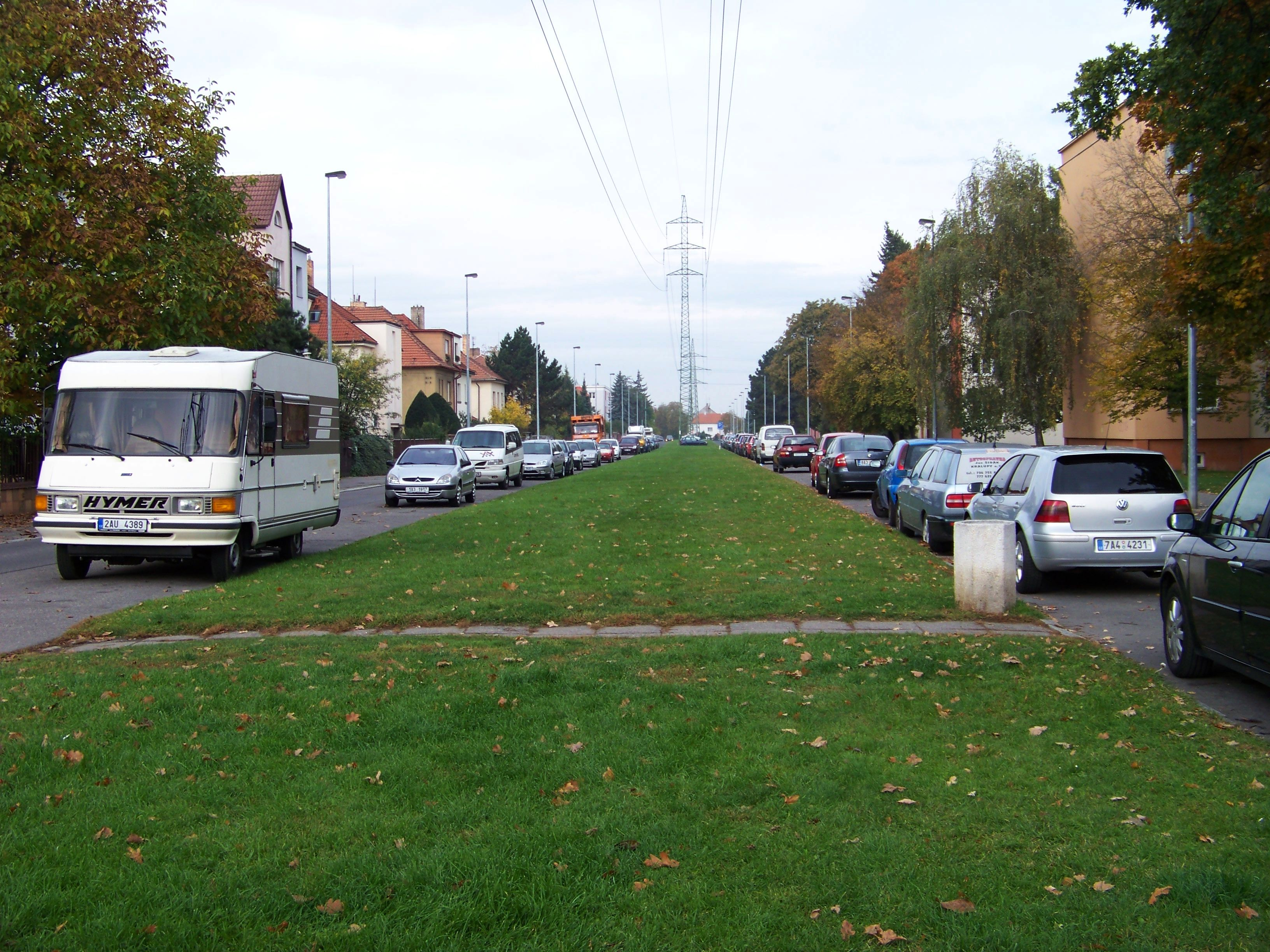 Prague-Břevnov, the Czech Republic. Zeyerova alej.